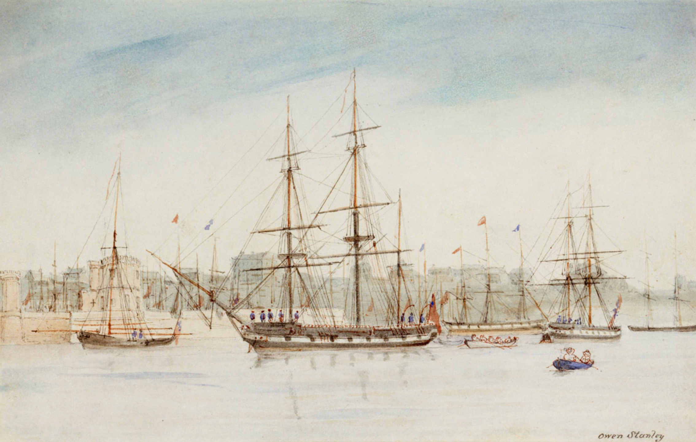 (centre) painted during the third voyage while surveying Australia.